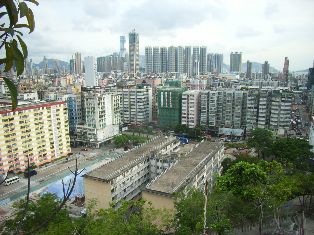 深水埗區石硤尾 嘉頓山景觀 - 美荷樓